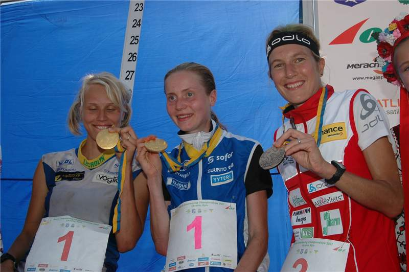 World Orienteering Championships 2007 in Kiev, Ukraine. On photo winners long distance Finns Minna Kauppi, Heli Jukkola and Swiss Simone Niggli-Luder.